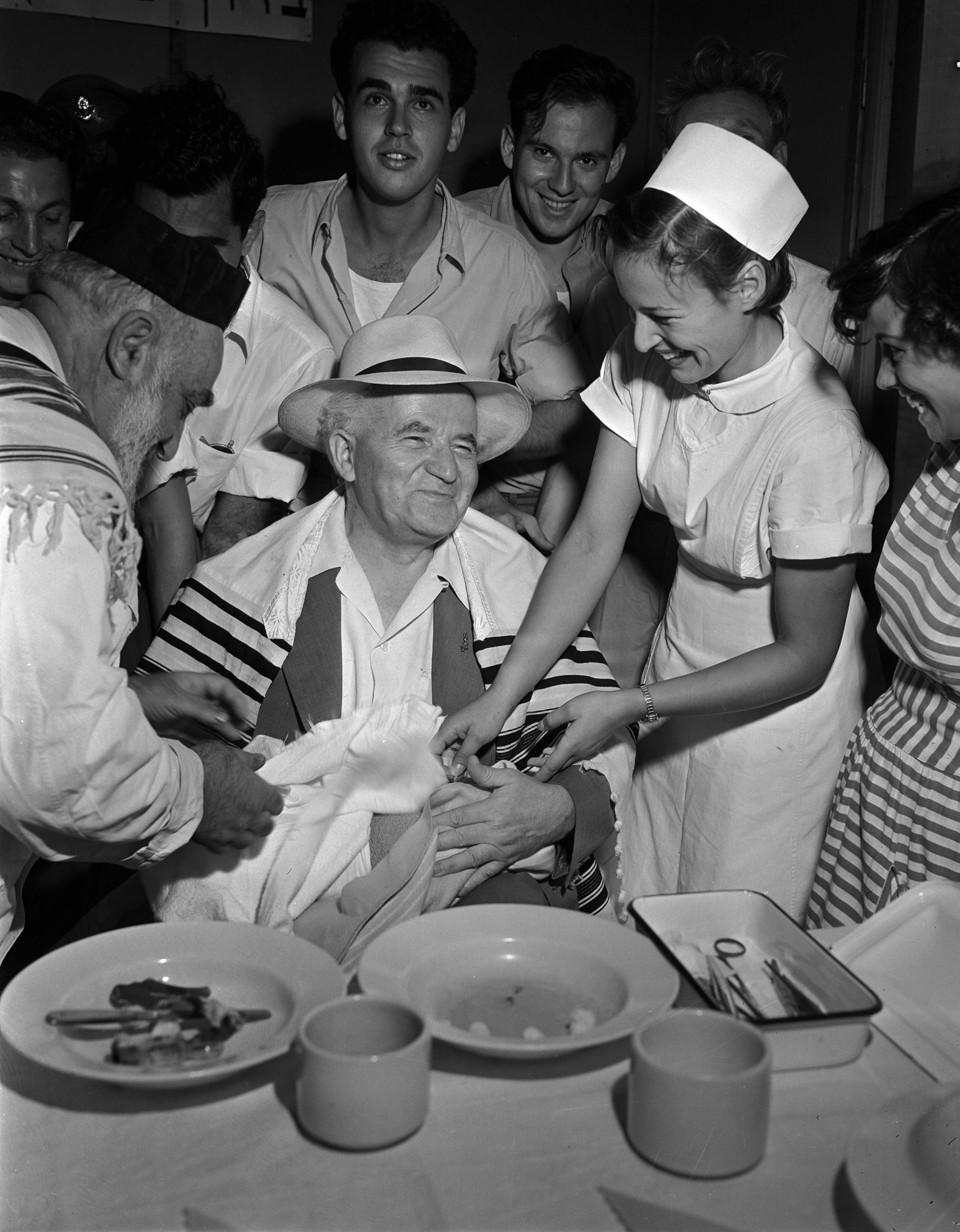 PM David Ben Gurion as godfather to the first born child in Eilat.